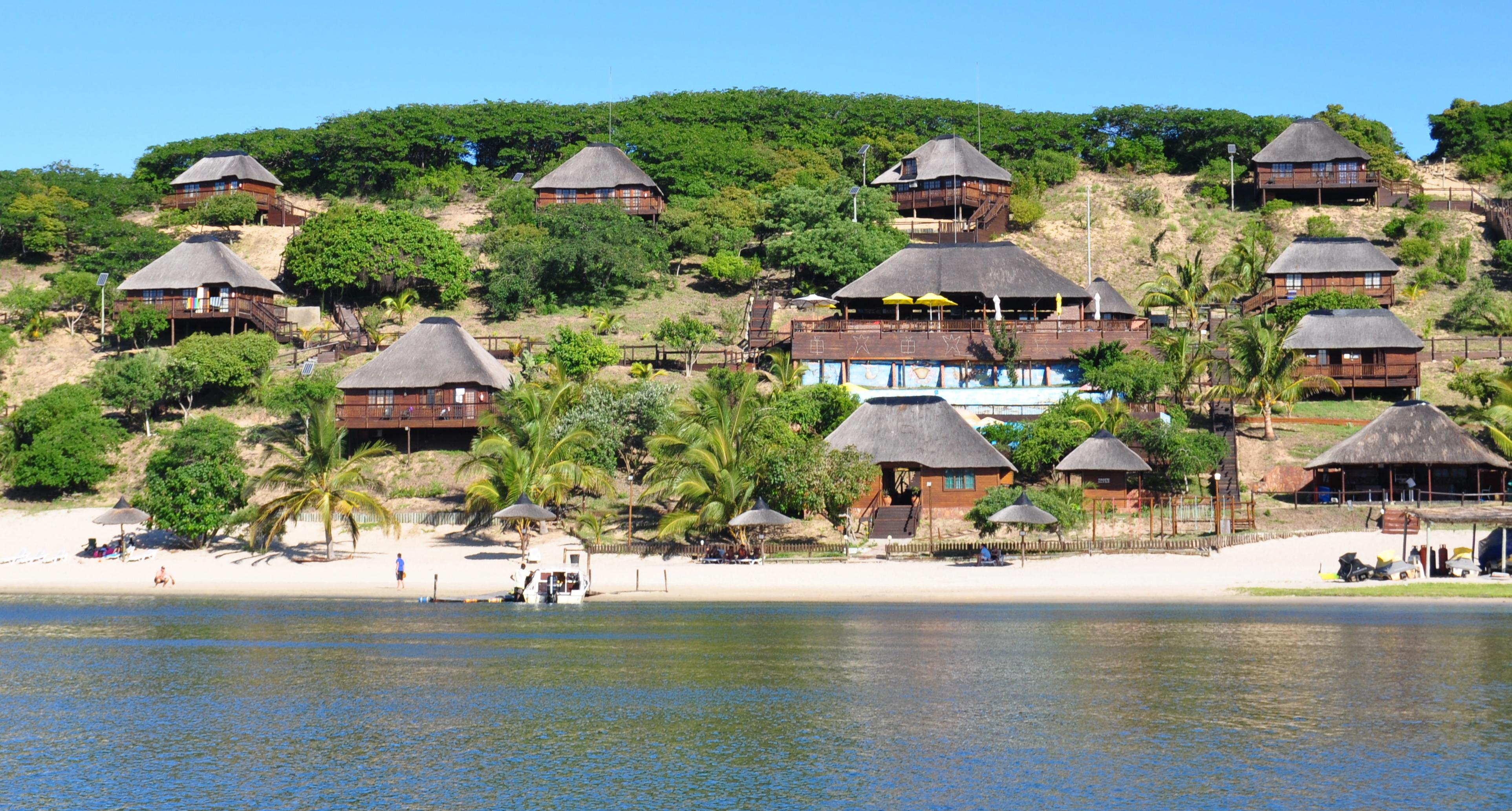 Beach of Praia de Bilene, Mozambique